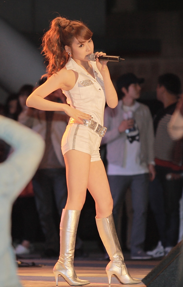 Tiffany Hwang at Hanyang University Festival on May 17 2011.Português do Brasil: Tiffany Hwang no Hanyang University Festival em 17 de maio de 2011.